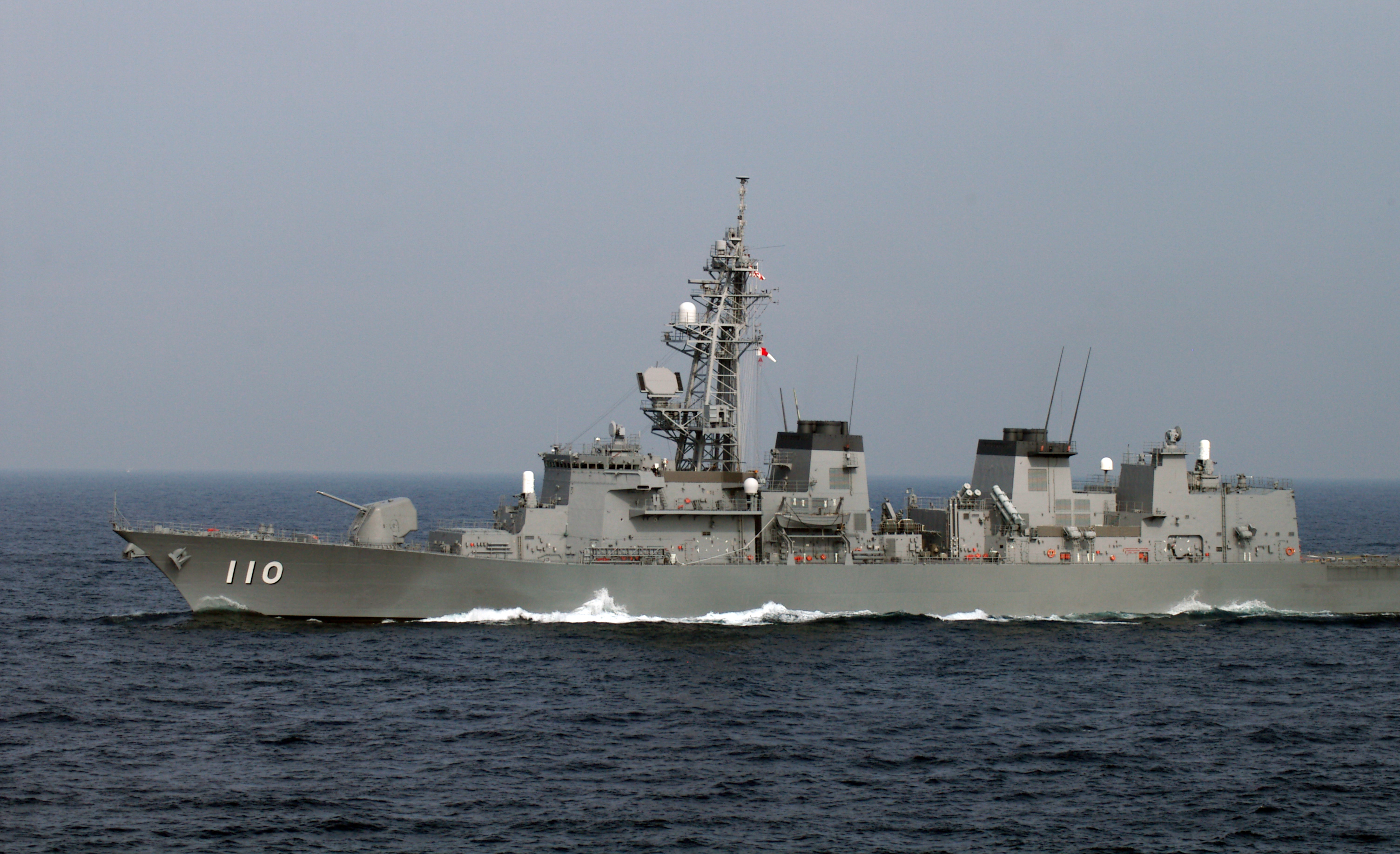 JS Takanami (DD-110) at SDF Fleet Review 2006. Pentax *istD